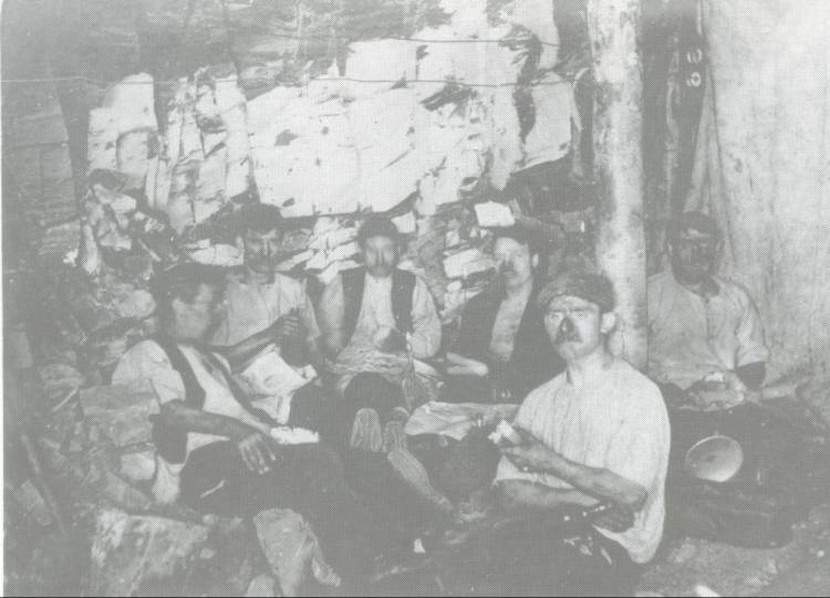 Coal miners in Brownhills depicted on a picture postcard sent in 1904. Image believed to be in the public domain due to age.